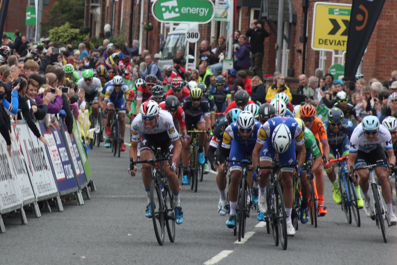 The sprint for the line at the end of stage 4 of the 2017 Tour of Britain in Newark-on-Trent. Zdeněk Štybar has just pulled off the front (in the white Czech champion's jersey) leaving his QuickStep Floors team mate Ariel Richeze (blue jersey, head down) to finish the lead out for Fernando Gaviria.